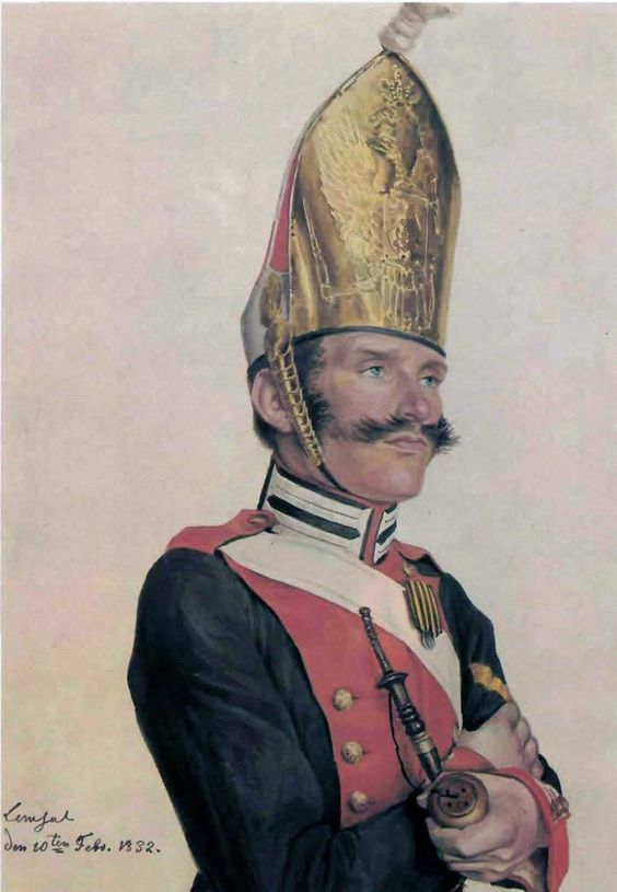 Pavlovski regiment